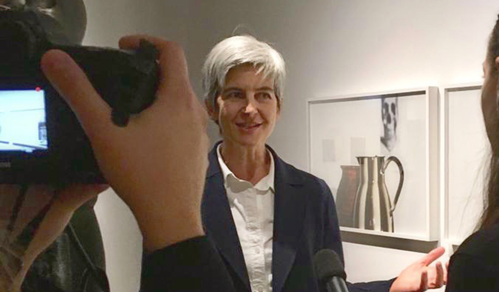 Barbara Probst at the opening of "still life, obstinacy of things" at Kunsthaus Wien, Vienna on September 12, 2018